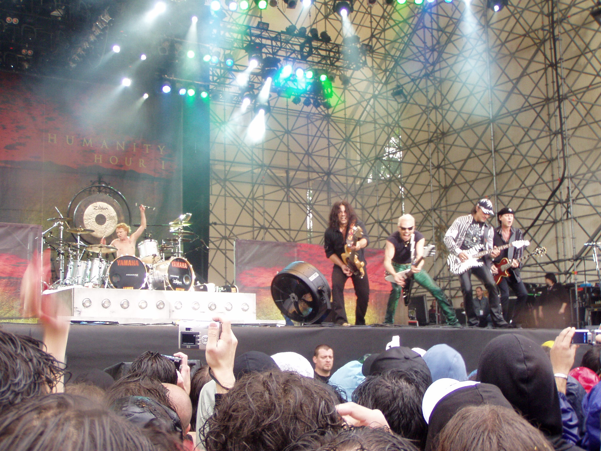 Gli Scorpions al Gods of Metal 2007